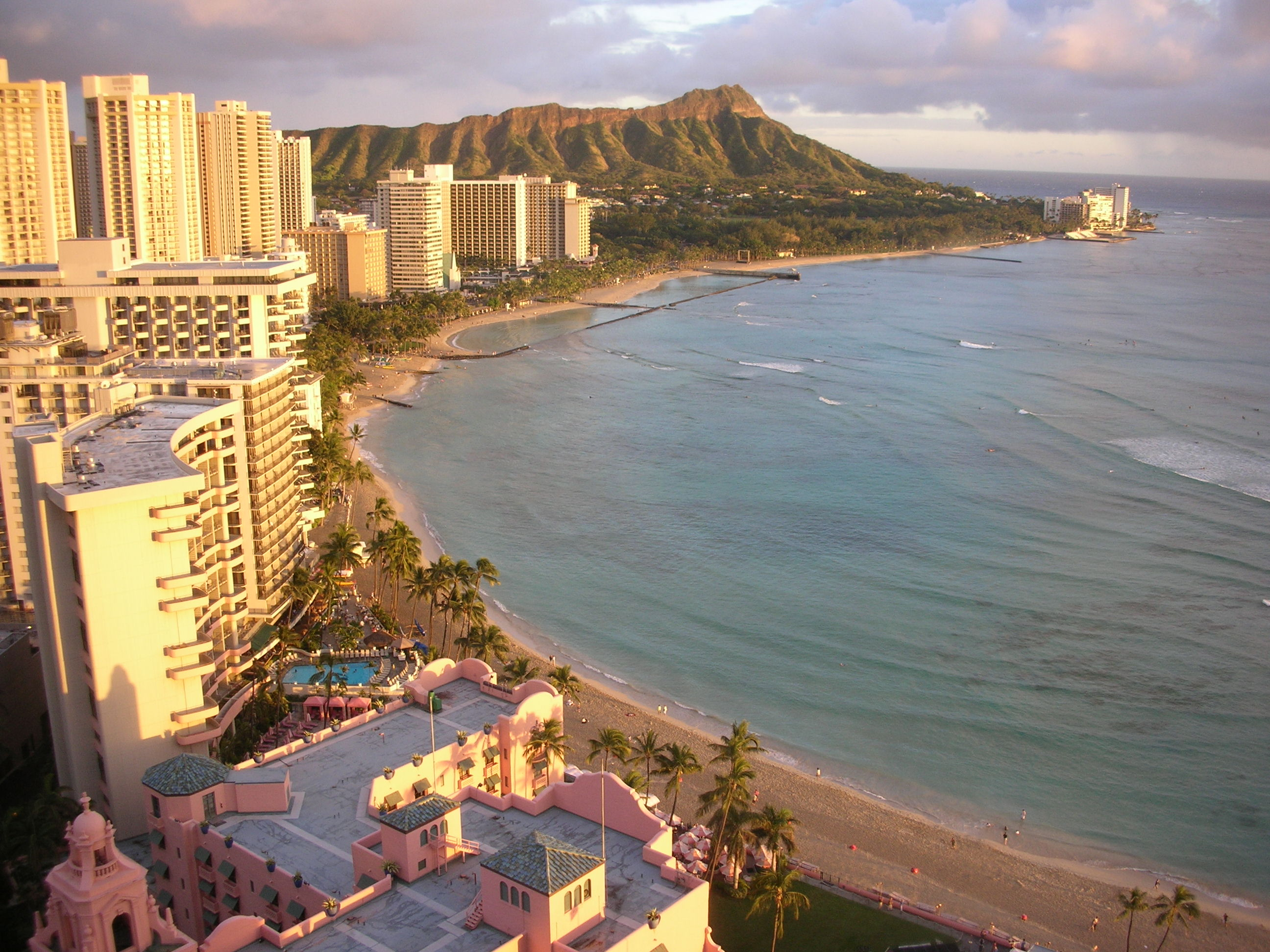 Waikiki Beach at Sunset, Waikiki Beach and Diamond Head from the Sheraton Waikiki Hotel Location: Honolulu.